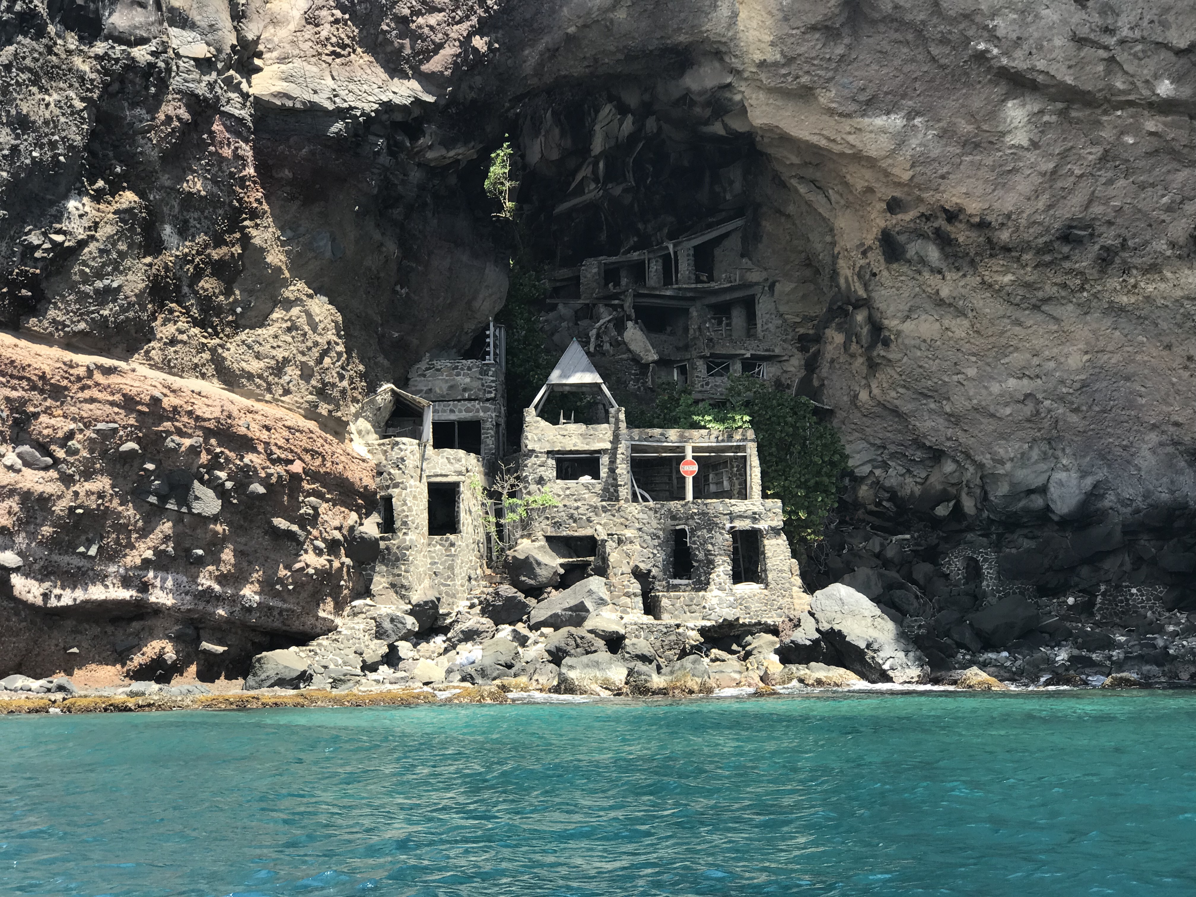 Moonhole homes built into a volcanic rock face.